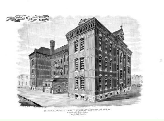 The exterior of the Francis M. Drexel School in Philadelphia from the Custis book, published in 1897, p. 434 (original numbering) - out of copyright. Available at Google Books. I've downloaded a jpg format (rather than pdf format) taken from sub page "History from 1888" (clearly the same photo from the same source).